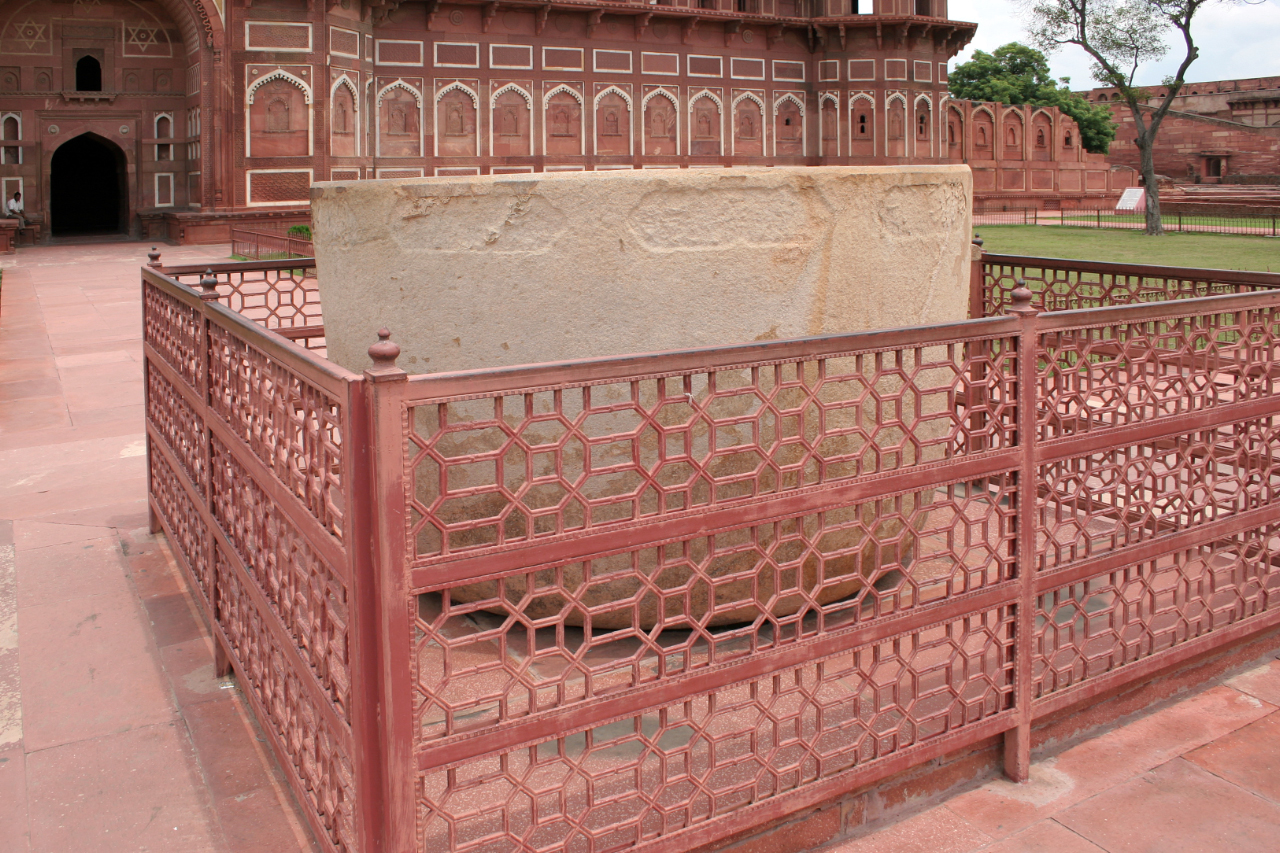 Great bathtub outside Jahangiri Mahal at Agra Fort. The tub was propably portable and may have been brought along when the mugal was travelling.